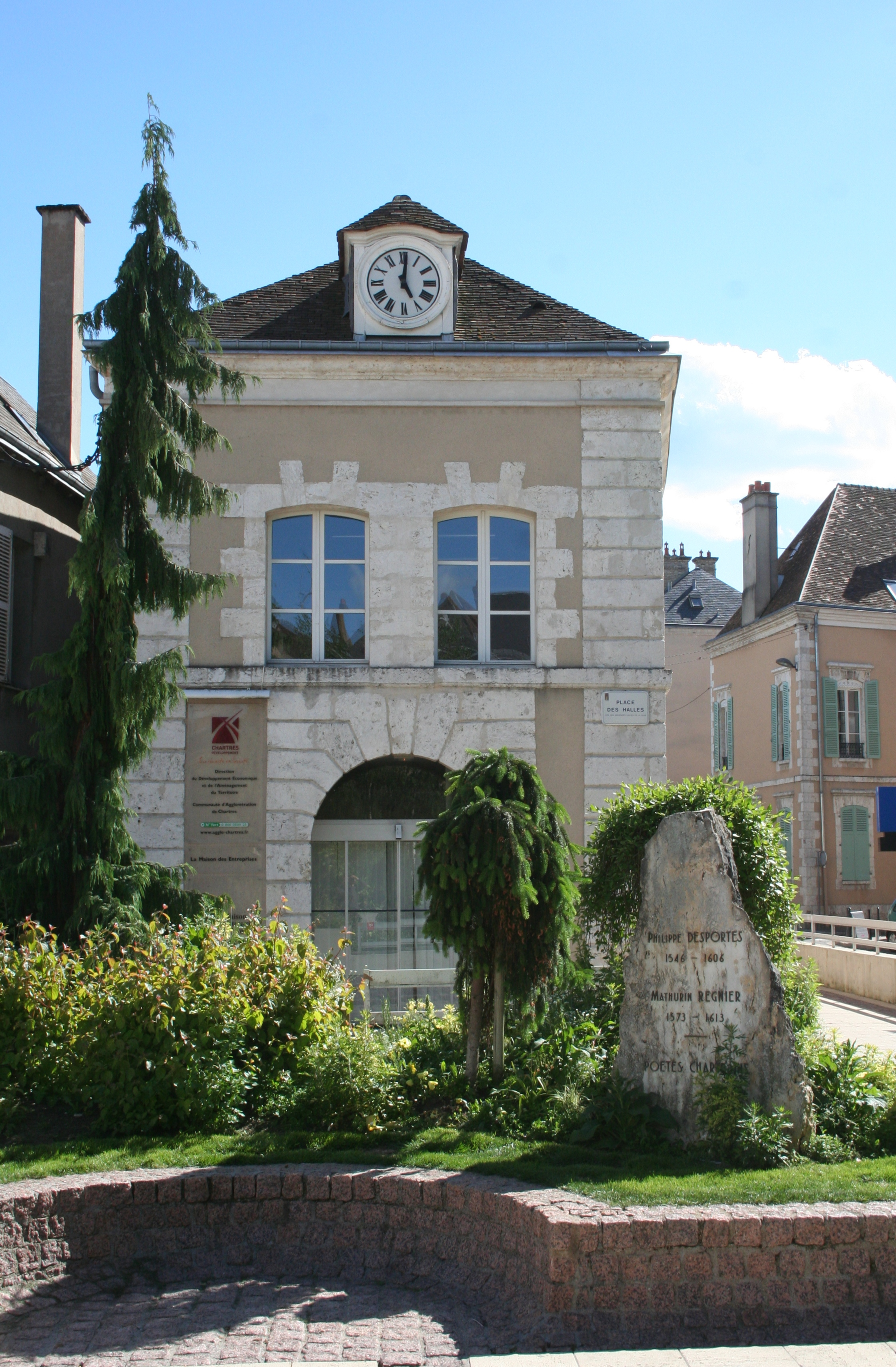 Stele as a tribute to the Chartres poets Philippe Desportes and Mathurin Régnier.